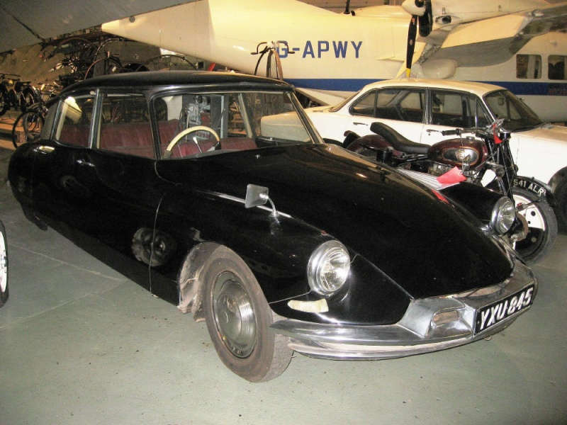 This is a 1960 Citroen DS19 car which was modified by the Road Research Laboratory (RRL – now Transport Research Laboratory) to be automatically controlled.